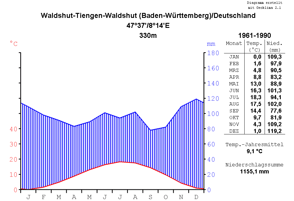 climate chart of Waldshut-Tiengen-Waldshut, Baden-Württemberg, Germany, for the period of time from 1961 to 1990, in the format by Walter and Lieth, metric, °Celsius and millimeters, chart made with Geoklima 2.1, label in German